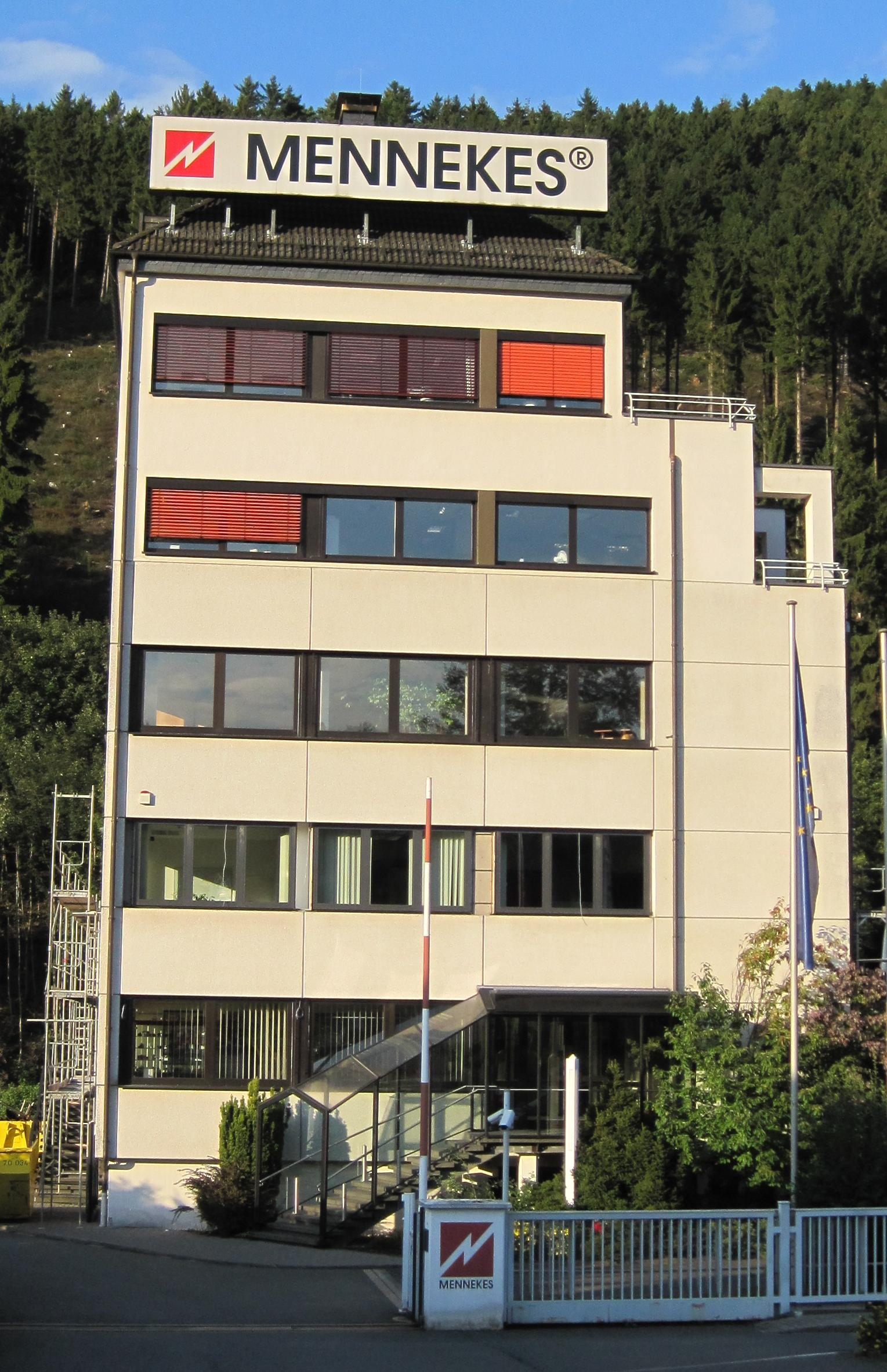 Mennekes, Kirchhundem, Germany check usage